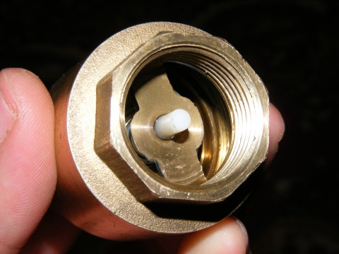 Free and Public Domain Photos – Brass Spring Check Valve More photos and details about possible copyright or licensing restrictions here: Full Size Up to 3072 x 2304 pixels Information Regarding Copyright